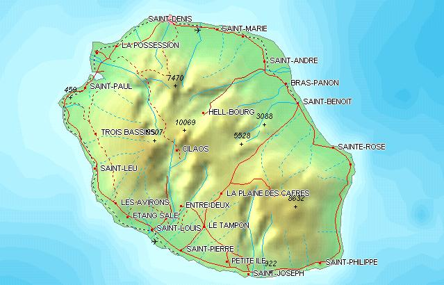 Saint Denis location La Reunion. Cropped from free maps